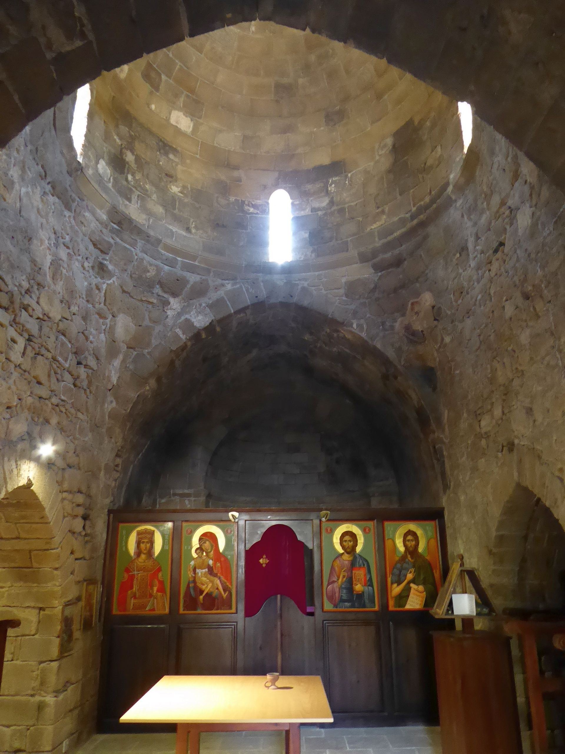 Agia Ekaterini (Kritou Terra)